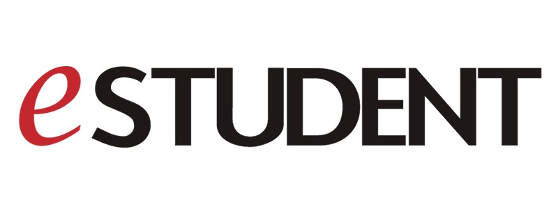 logo of eSTUDENT